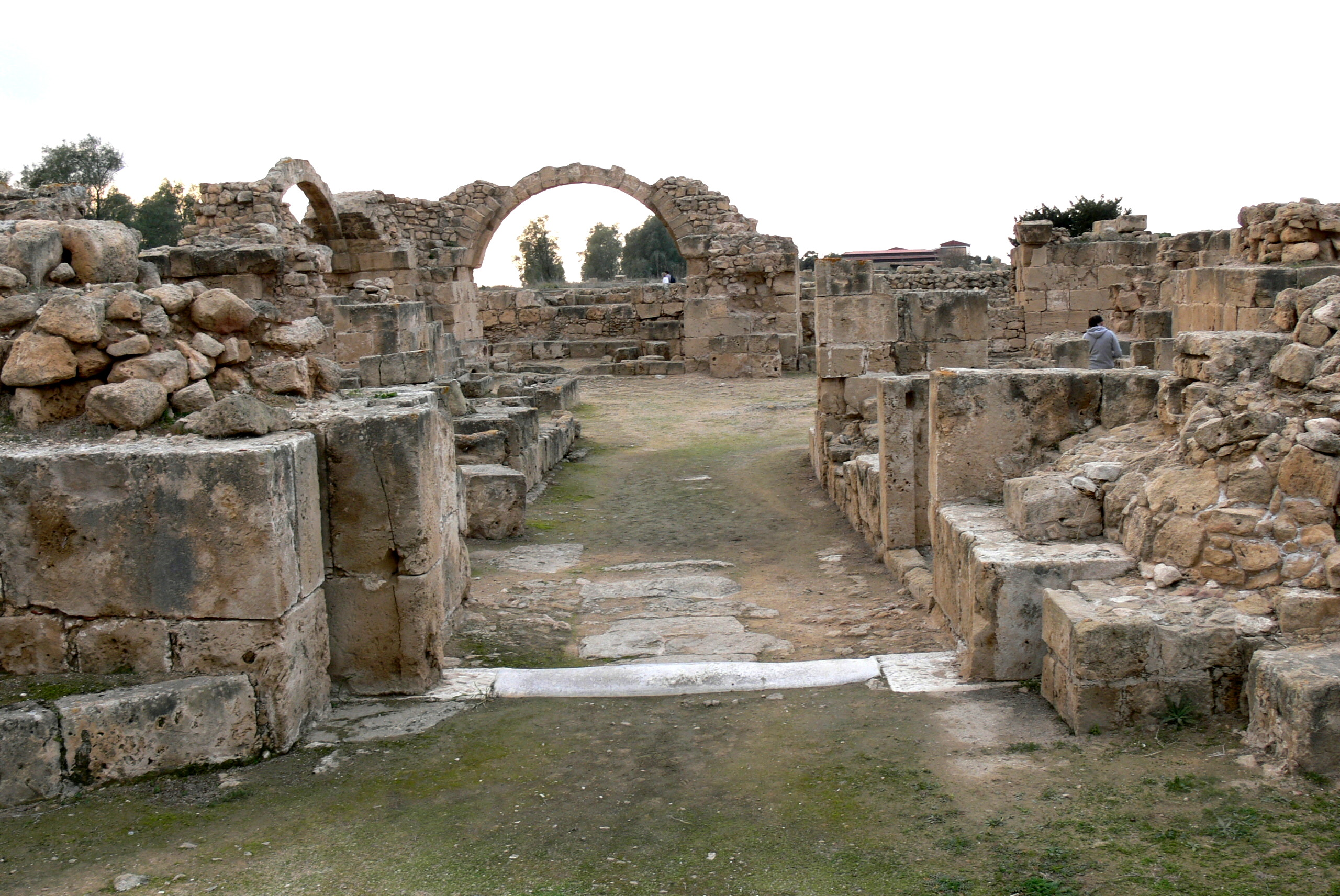 Paphos Archaeological Park. Saranda Kolones castle: Castle gate.